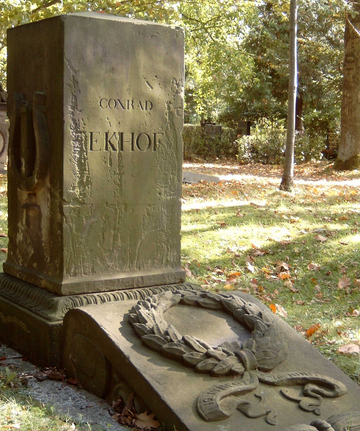 On the occasion of the 100th anniversary of the death of Conrad Ekhof erected memorial stone situated in the main cemetery of Gotha.